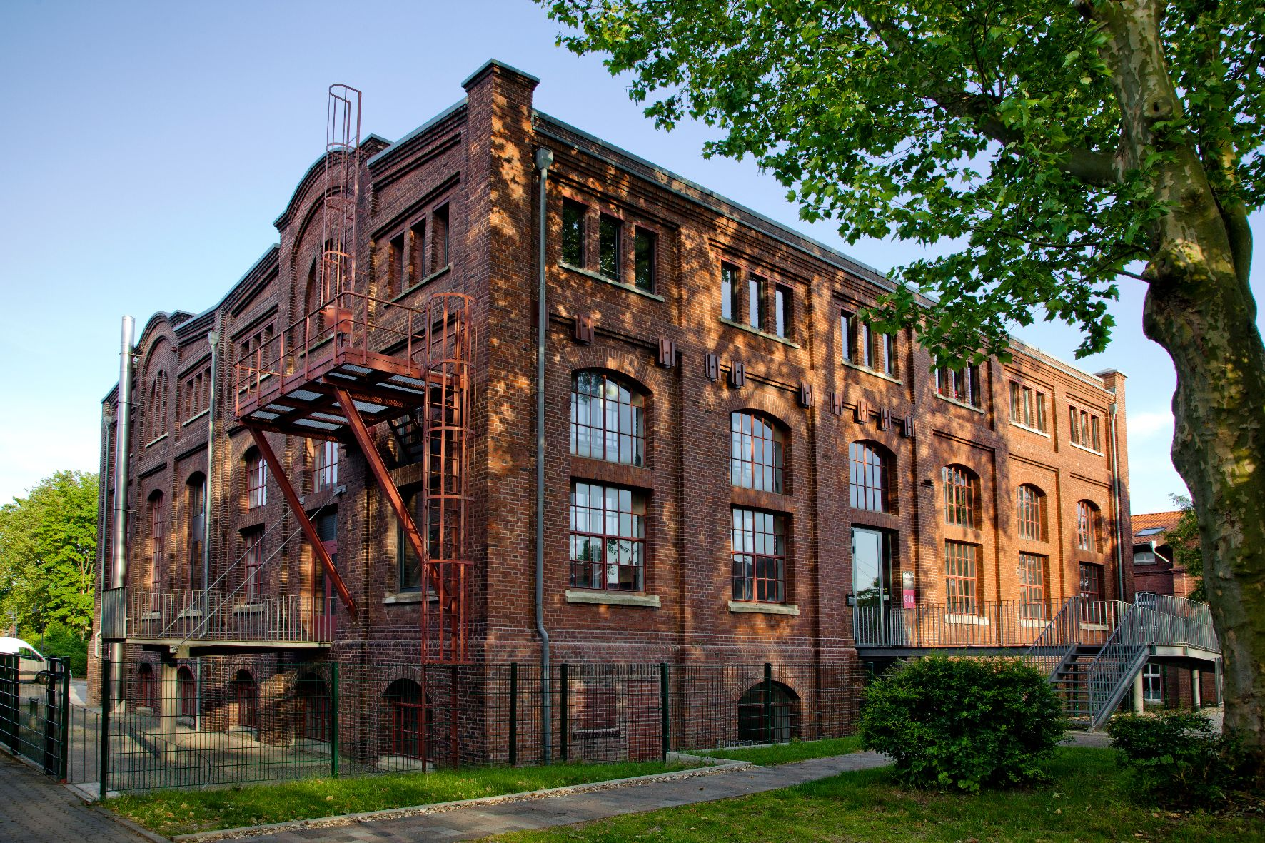 Building 10 of Triple Z